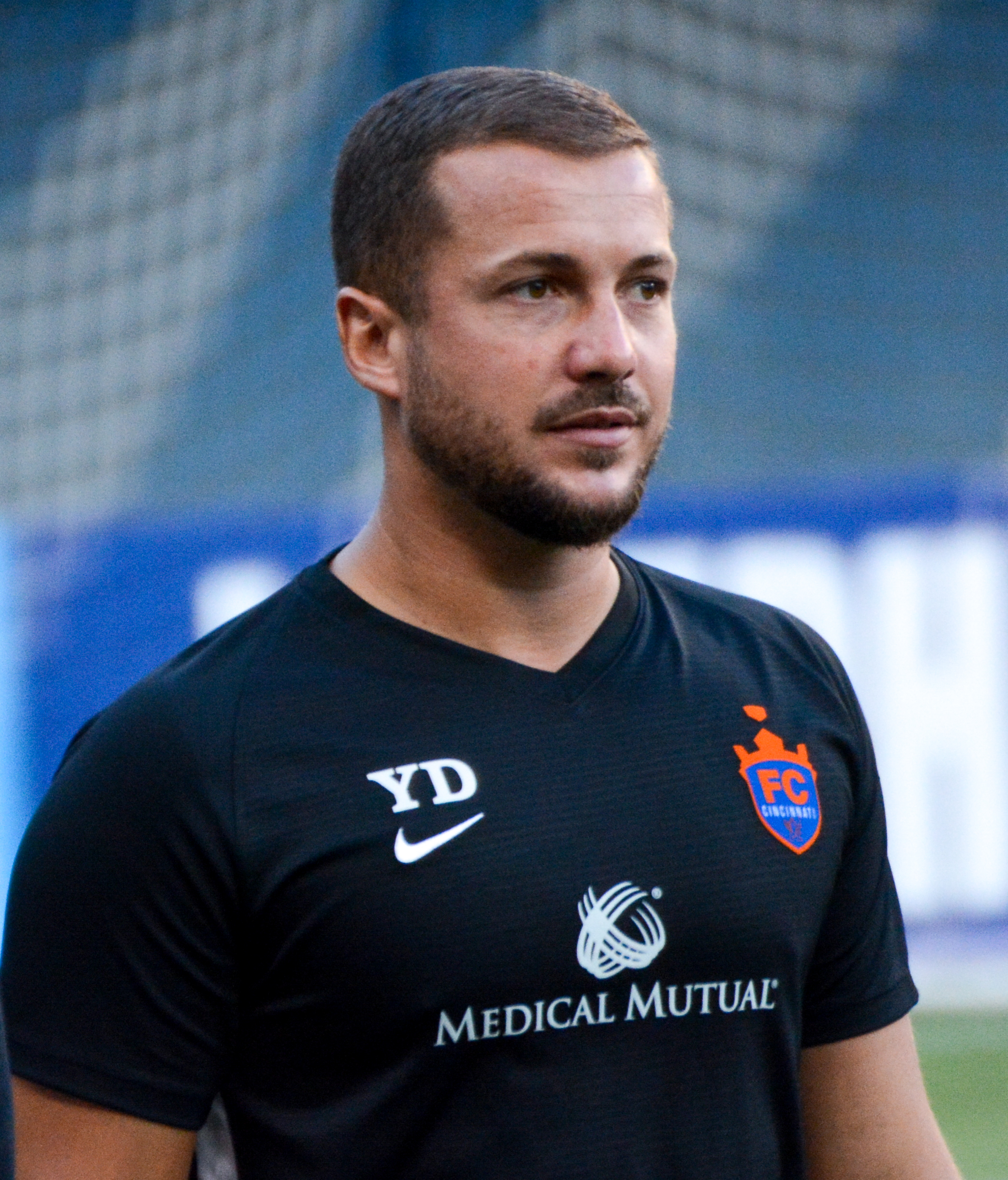 Taken during a USL regular season match between FC Cincinnati and Pittsburgh Riverhounds at Nippert Stadium in Cincinnati, USA on September 1, 2018.